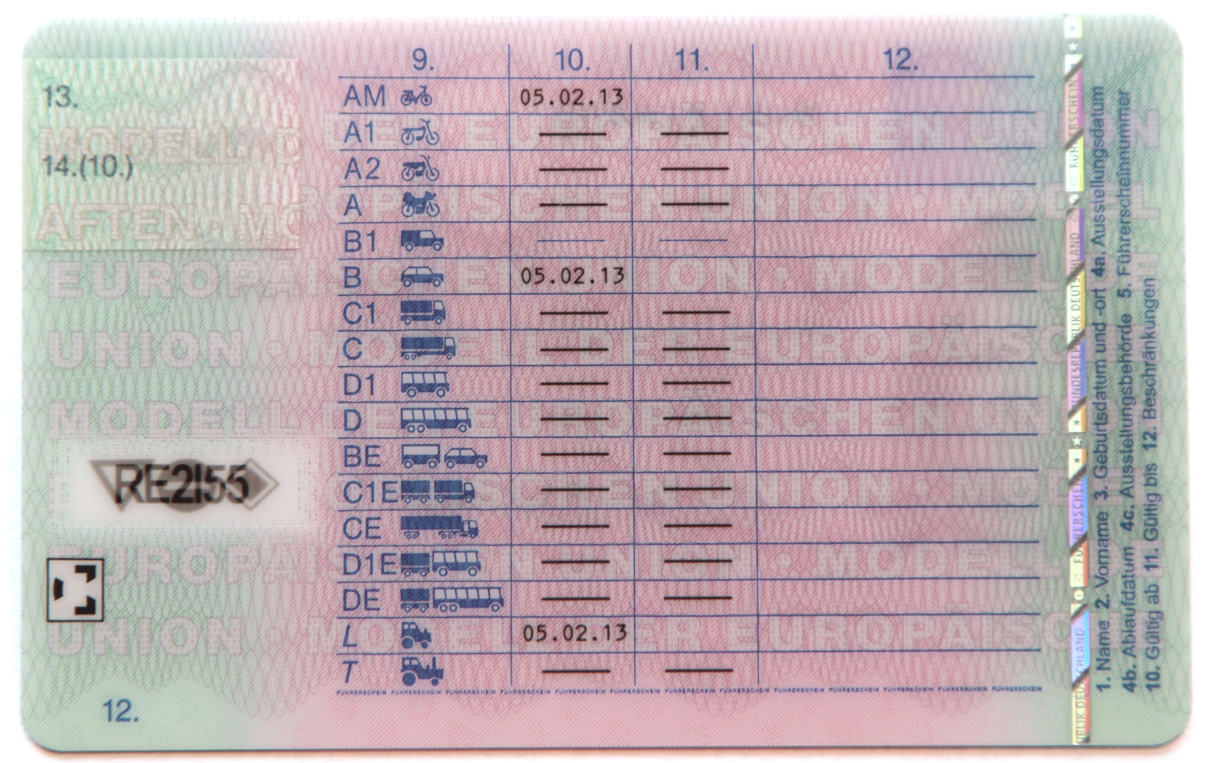 Specimen for the European driving licence used in Germany since 2013, back side